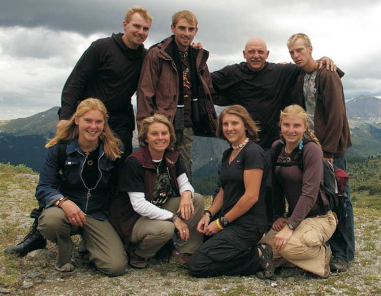 Photo of the Woroniecki Family in the Rocky Mountains in Colorado, America.